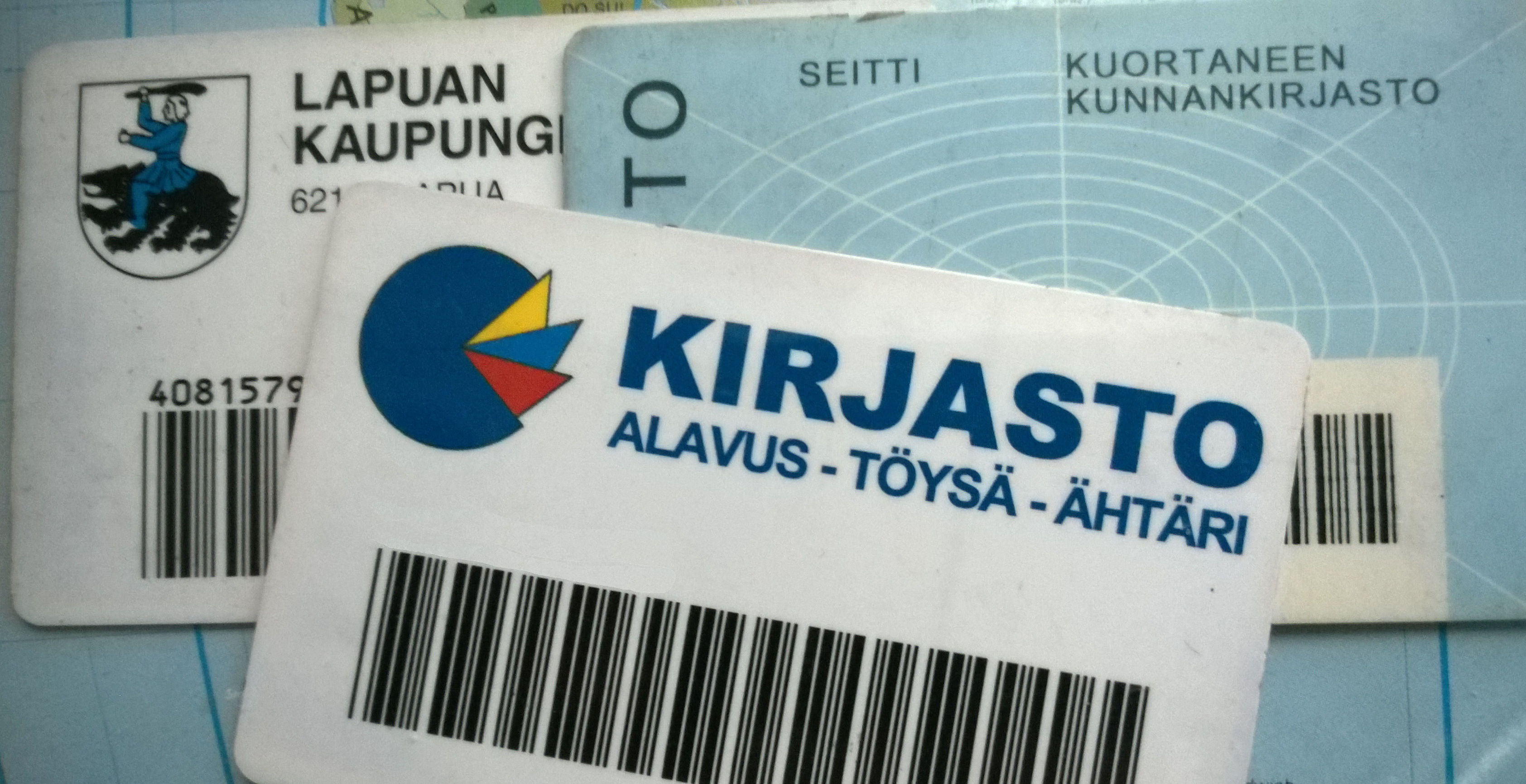 Finnish library cards